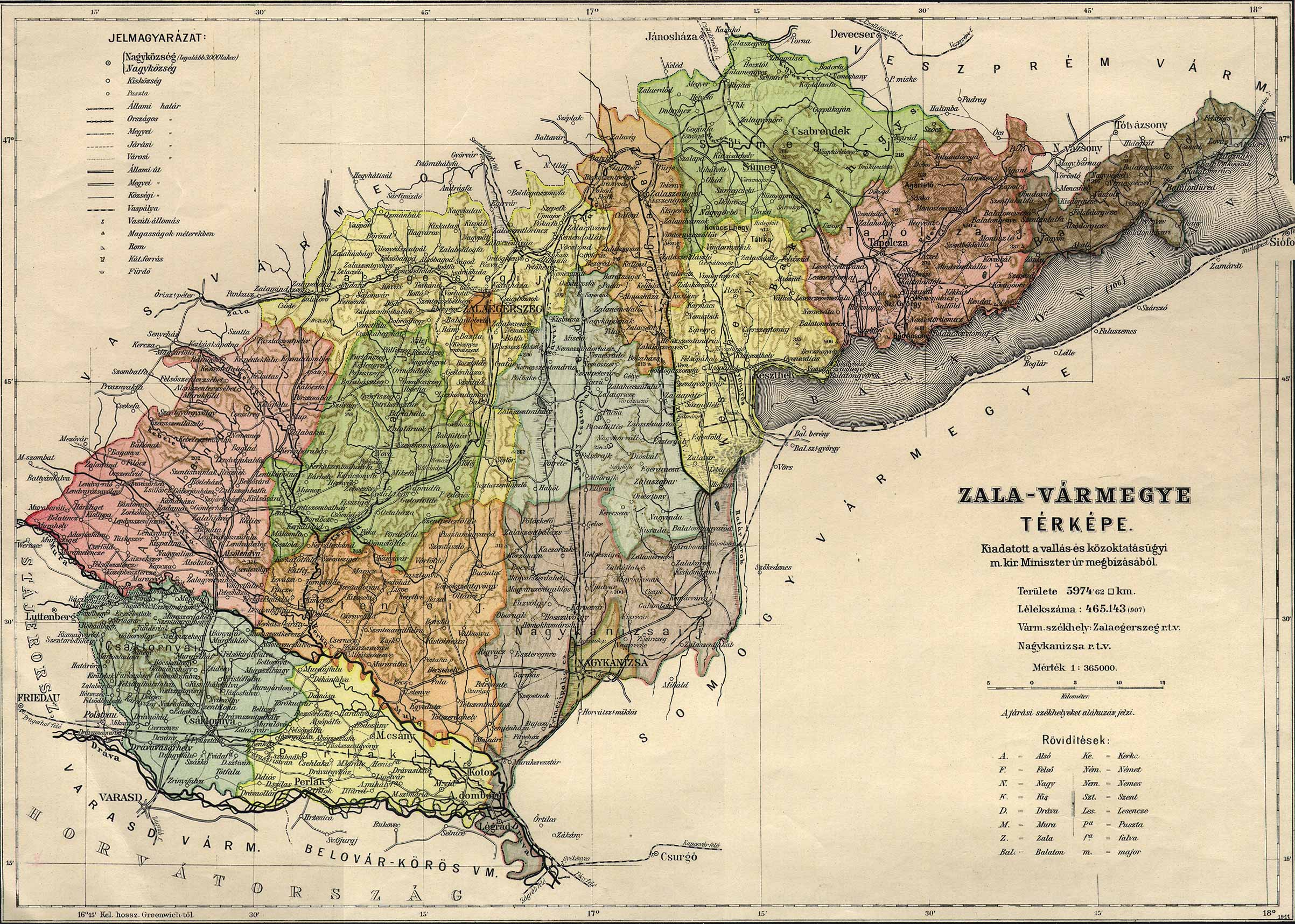 Administrative map of the county of Zala in the Kingdom of Hungary